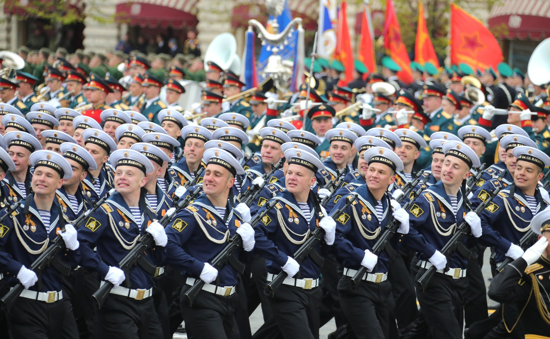 Military parade on Red Square 2017-05-09